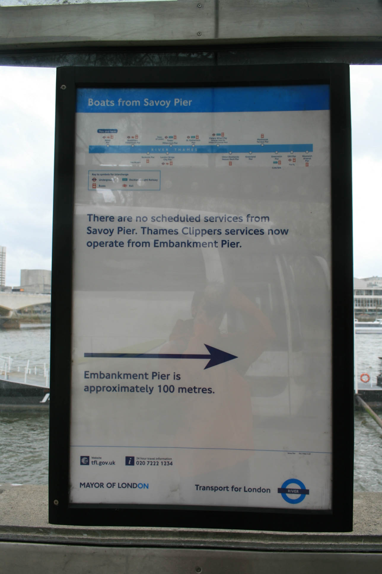 Notice at Savoy Pier showing the transfer of river bus services to Embankement Pier